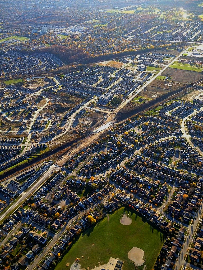 Urban Sprawl in London, Ontario